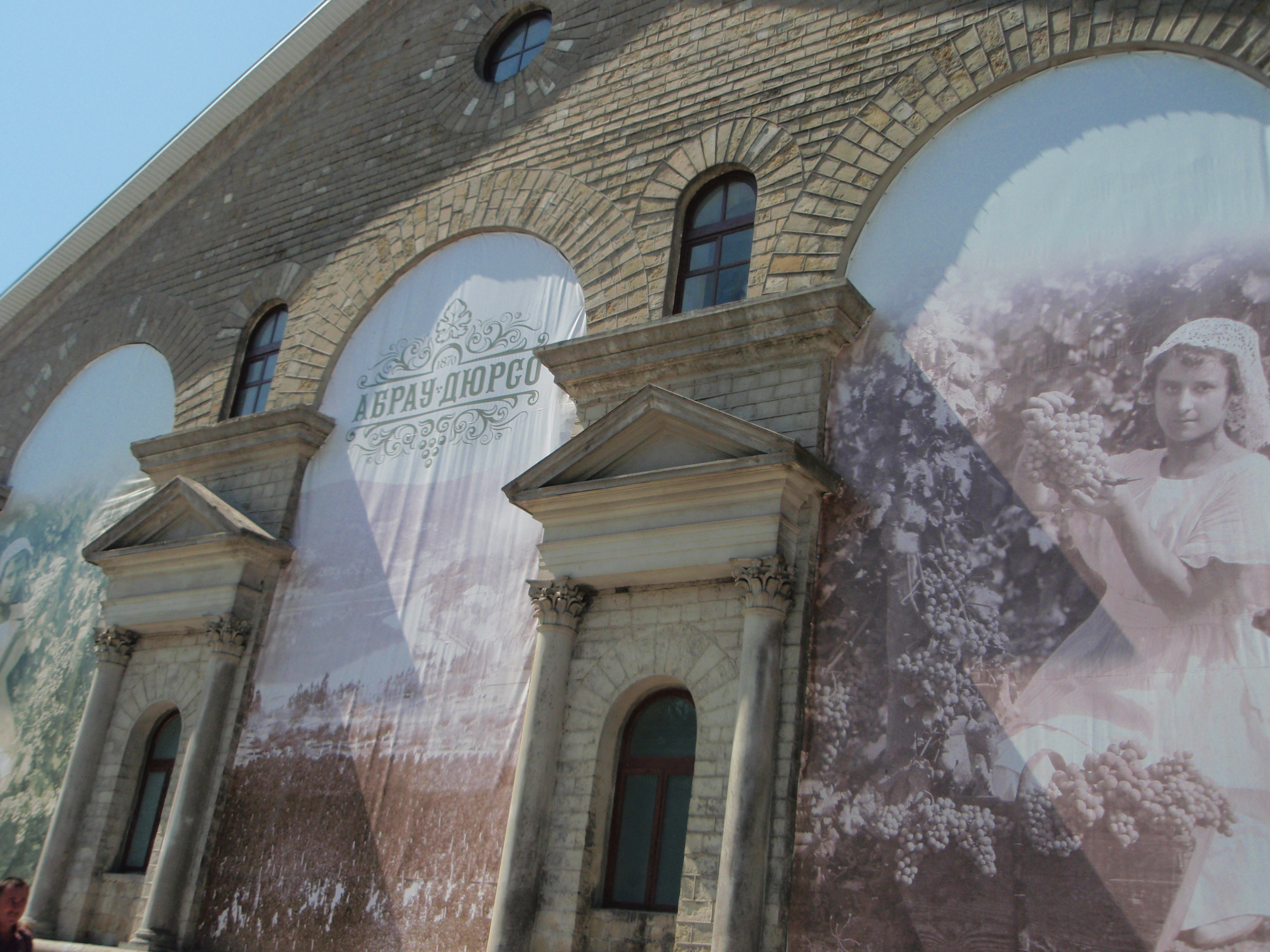 Main building of Abrau-Dyurso wine factory.Edificio principal de las bodegas Abráu-Diursó